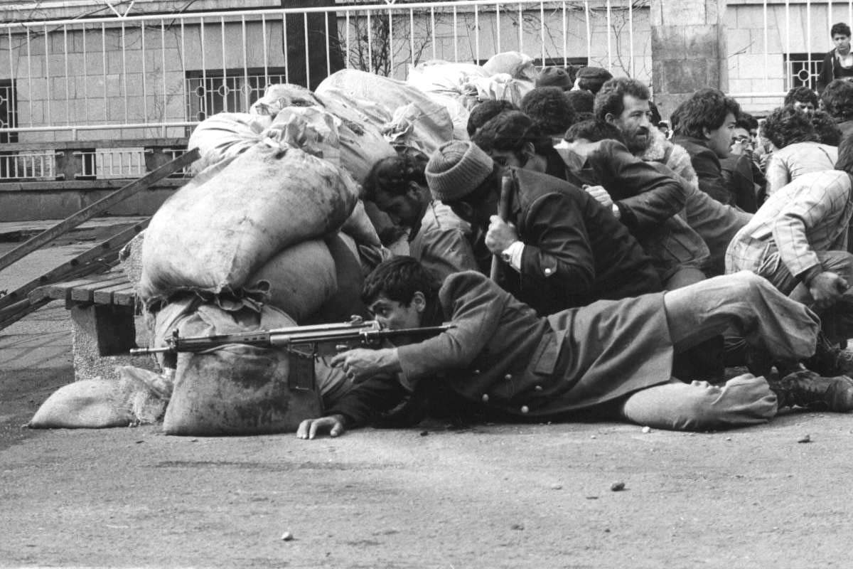 Iranian armed rebels during the Islamic revolution in Iran in 1979